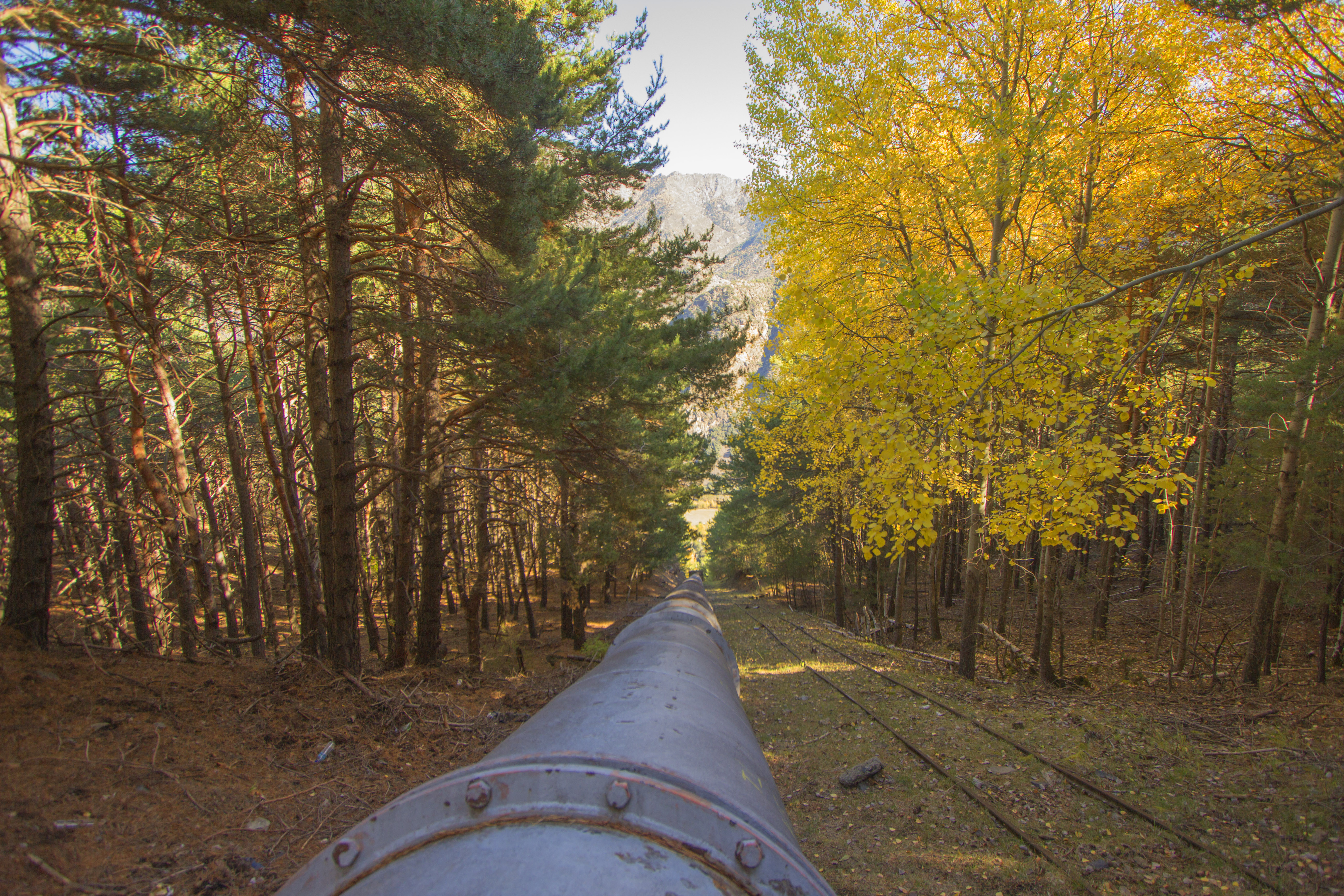 Espot Hydropower plant penstock (Catalonia), and the funicular's rail